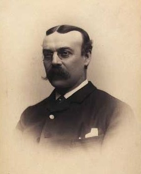 Mathias Vilhelm Samuel Storch (1837-1918), Danish agricultural chemist